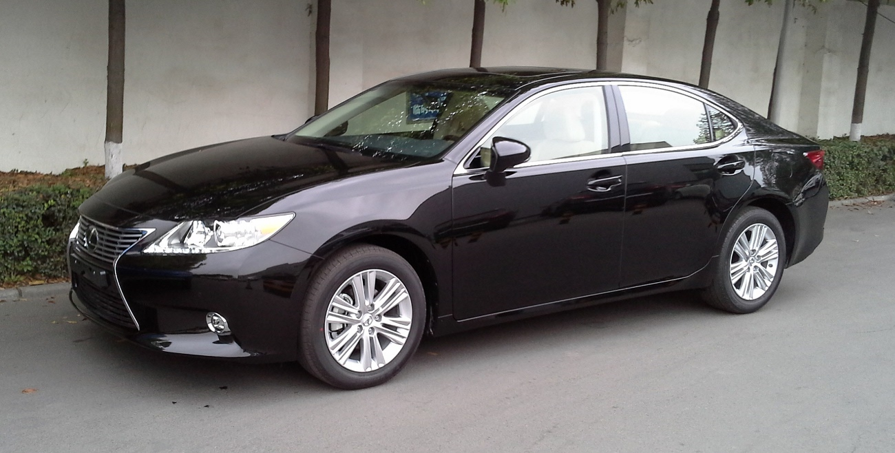 Lexus ES XV60 photographed in Chengdu, Sichuan province, China.